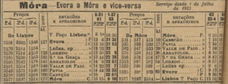 Timetable of the trains between Évora and Mora, in Portugal, on the 1st July 1913. This image was published on the Guia Official dos Caminhos de Ferro de Portugal No. 168, of October 1913, and scanned by the Biblioteca Nacional de Portugal.